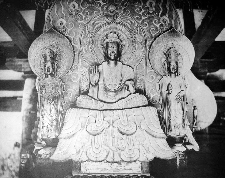 Bronze Statue of Shakyamuni Buddha Triad, dated ACE623 center 87.5cm body height, left 92.3cm, right 93.9cm, in Hōryū-ji Monastery, Nara, Japan